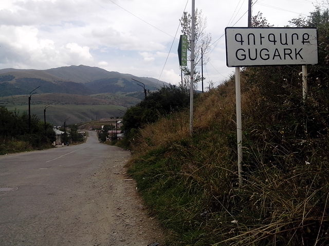 Gugark town limit